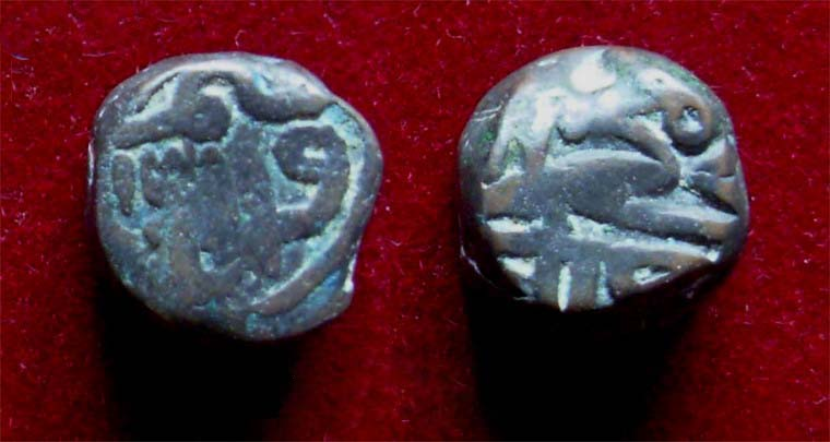 Copper coin of Ahmad Shah I weighing 11.2 Gms from my personal collection.